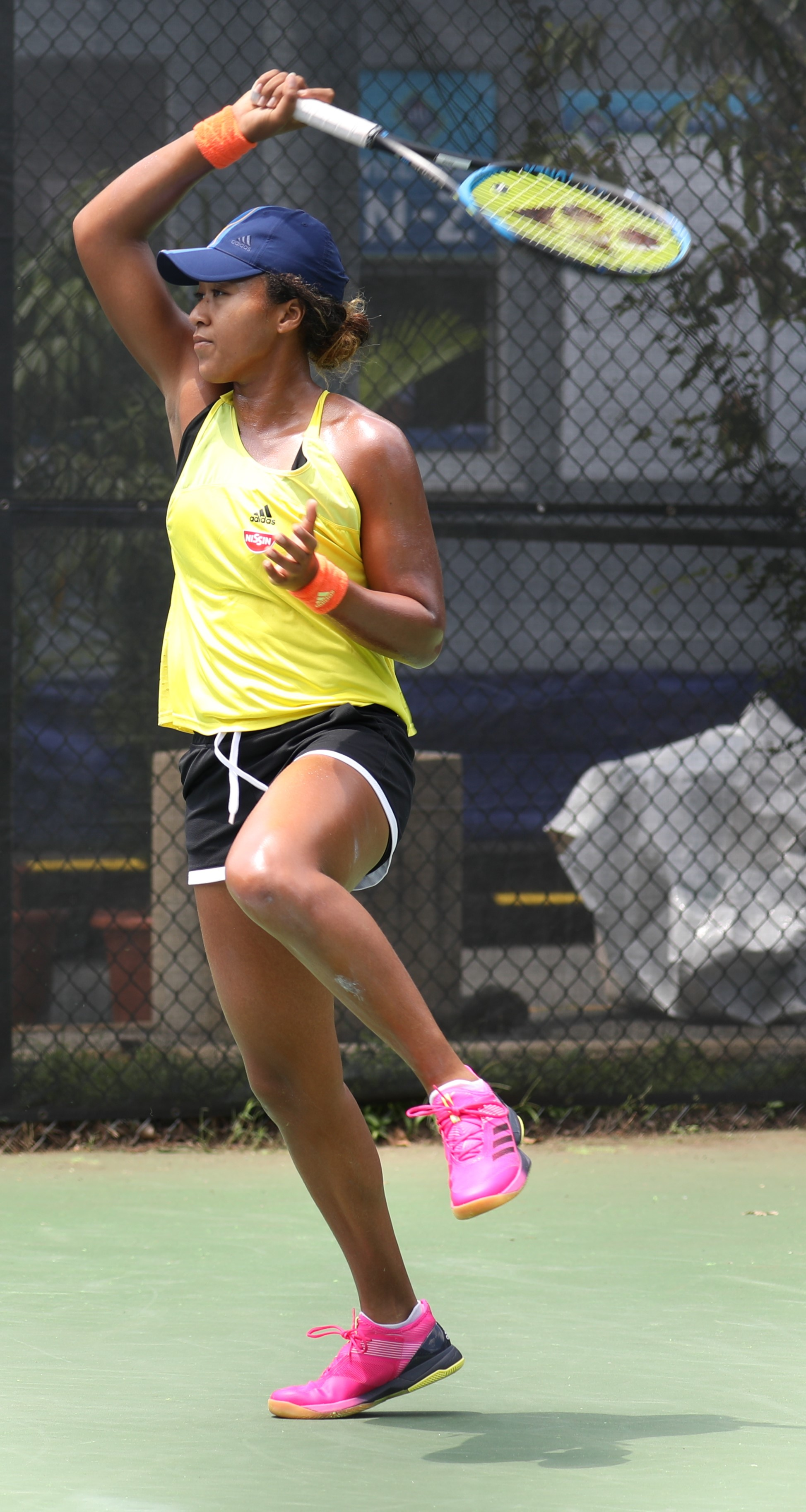 2018 Citi Open